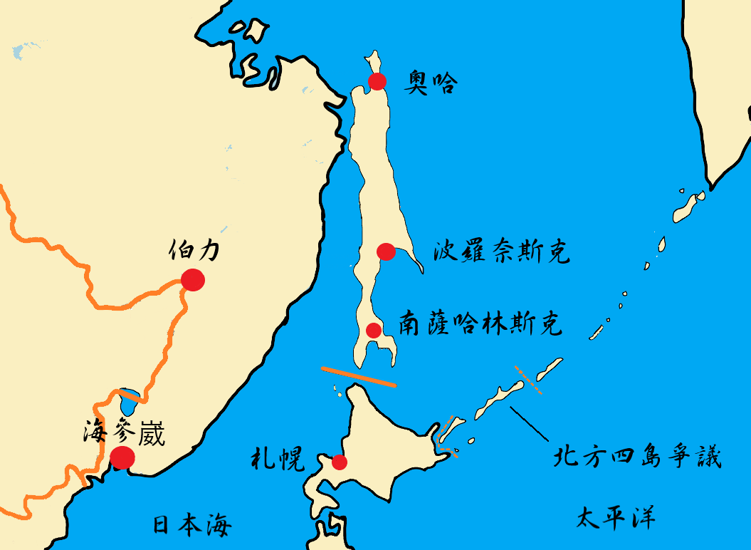 The map of Sakhalin and her surroundings. (Chinese ver.)